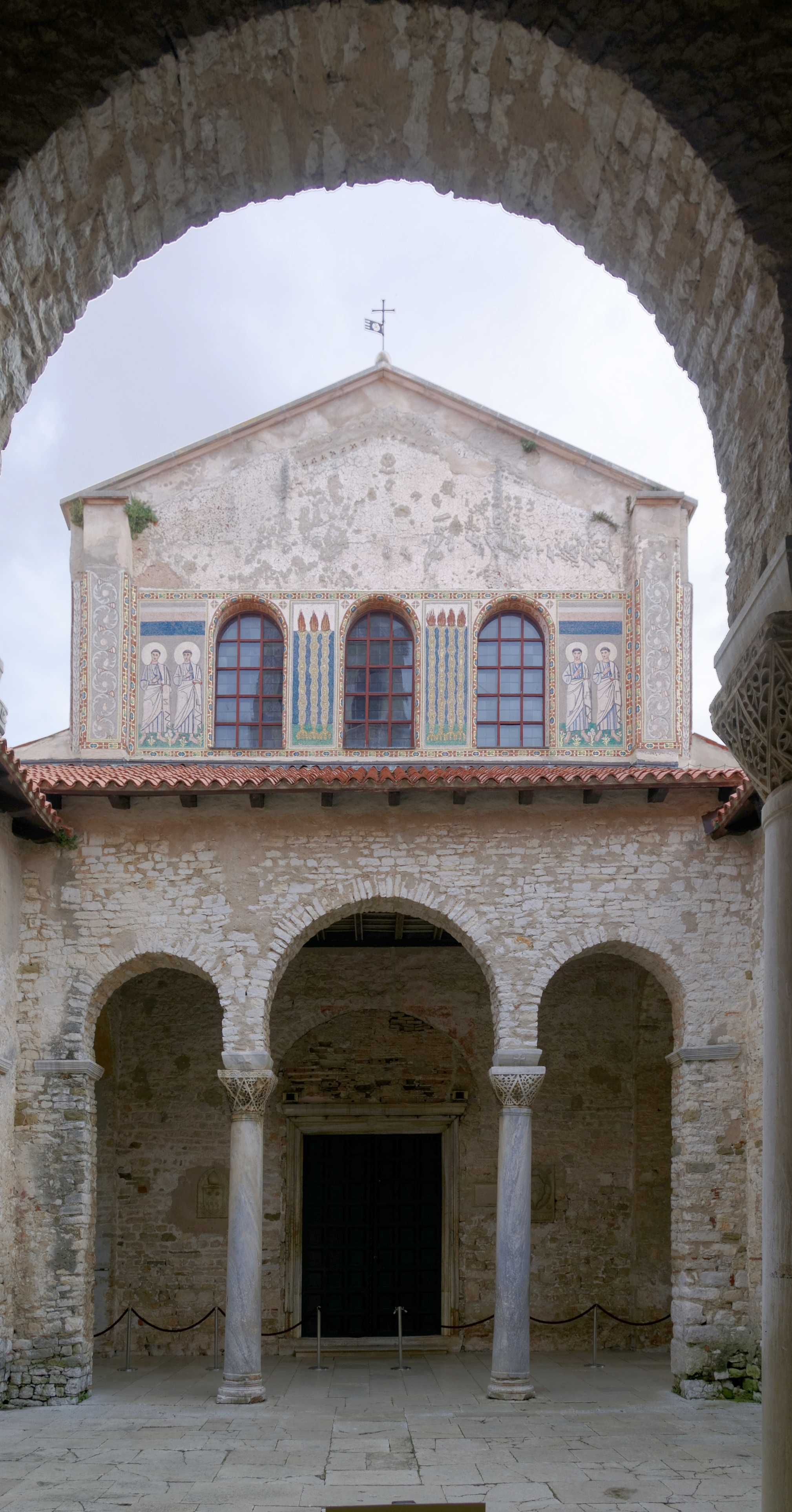 Croatia, Poreč, Euphrasian Basilica